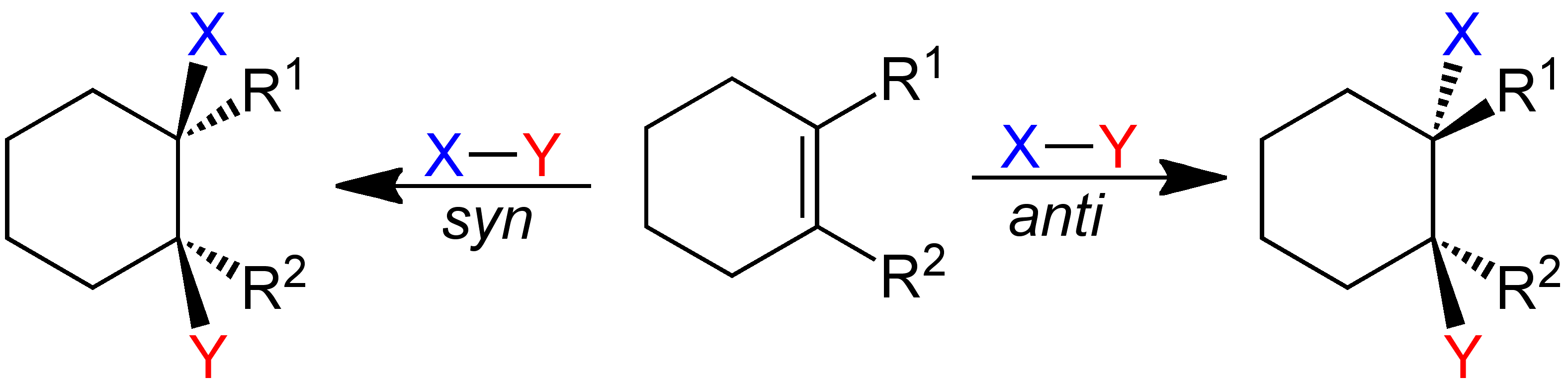 Syn_&_anti_Addition